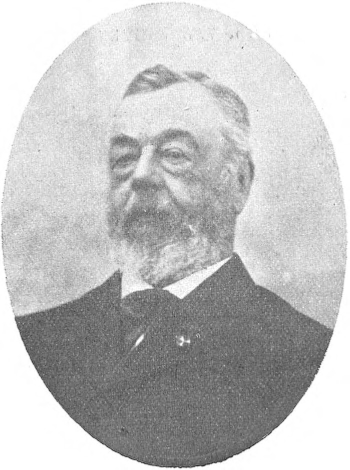 nameJhr. , Mr. P. J. VAN BEYMA political affiliationliberalism positiemember of the Senate of the Netherlands districtFriesland period21 September 1904-1910